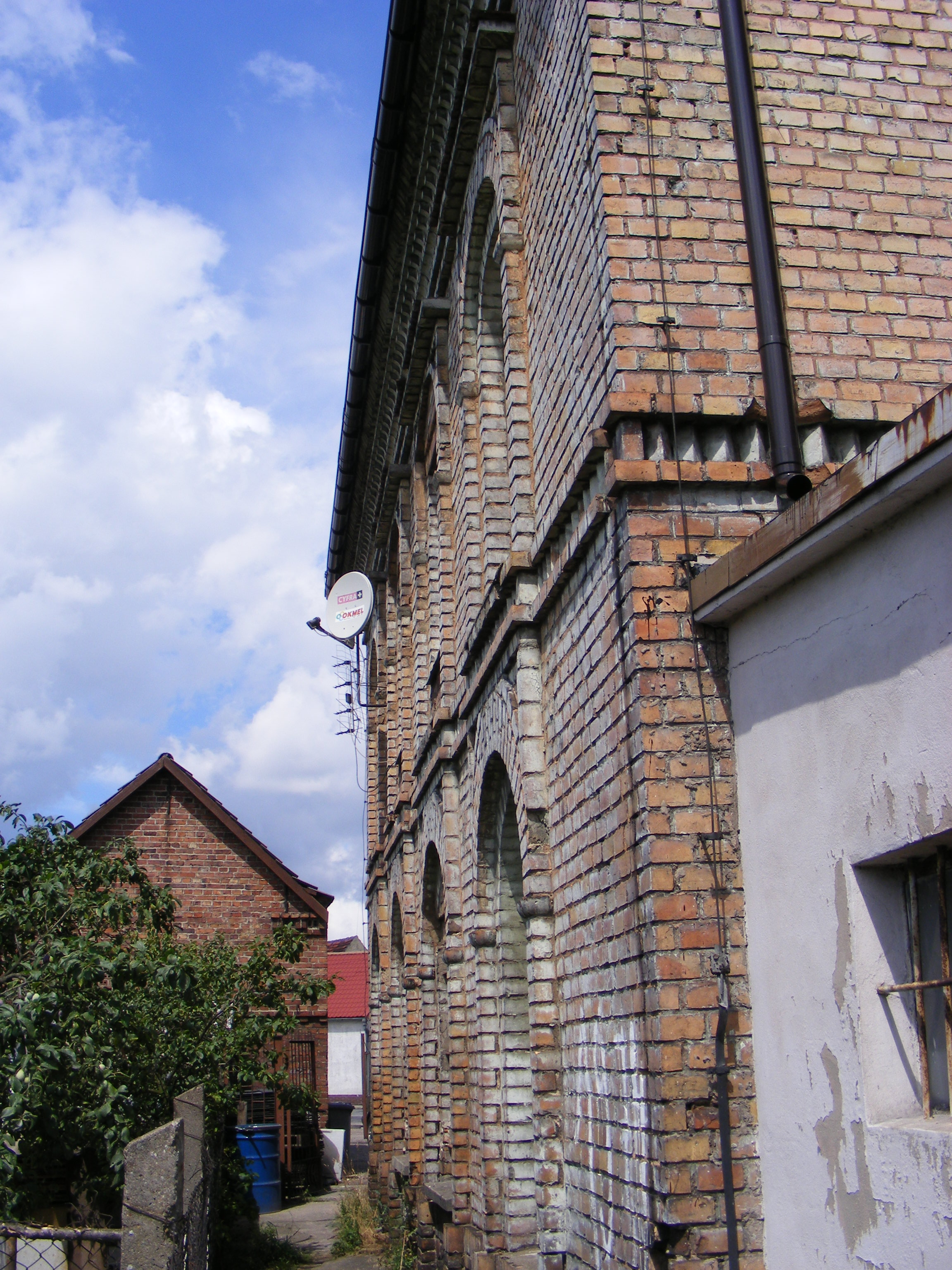 Synagogue in Trzciel